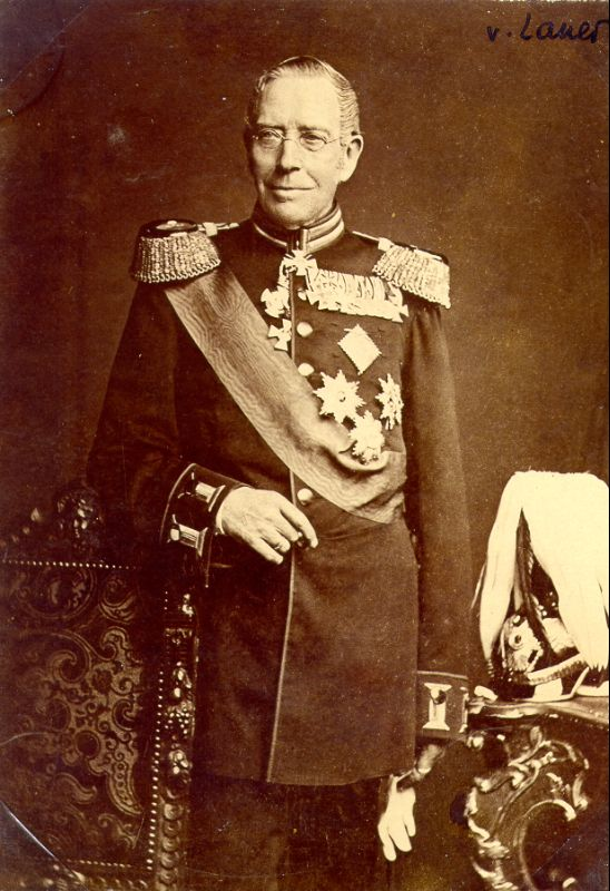 Gustav Adolph von Lauer (1808–1889), German physician